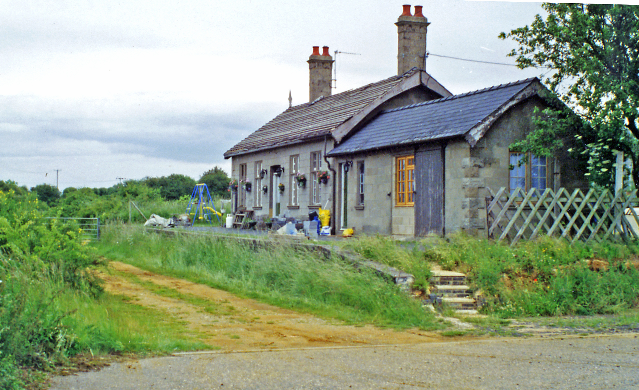 East Rudham station (remains). View eastward, towards Melton Constable etc.: ex-M&GN Sutton Bridge etc. - Melton Constable etc. The station was closed on 2/3/59 when almost the whole of the M&GN system wsa closed, but goods traffic continued to run between South/Kings Lynn and East Rudham for perhaps until 1/5/69 - sources vary.